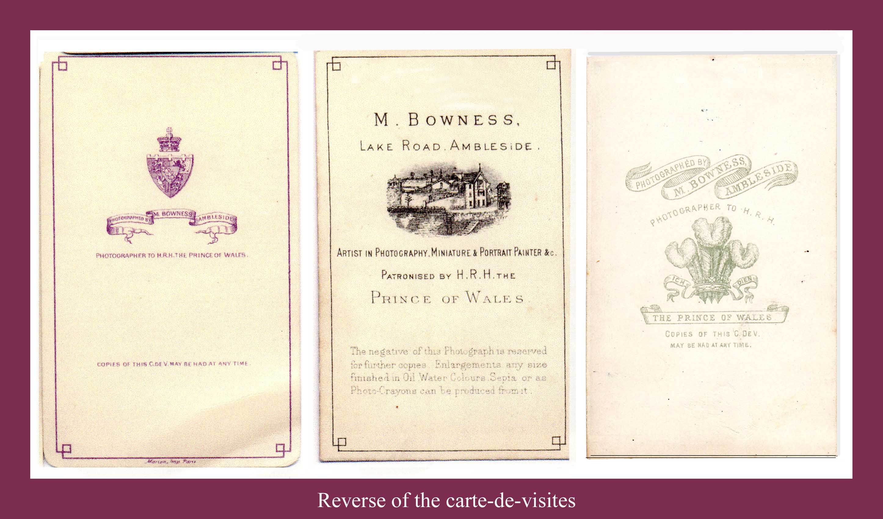 This picture shows 3 different styles used on the reverse of Moses Bowness c-d-vs.